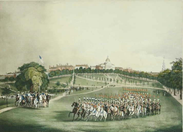 The National Lancers with the Reviewing Officers on the Boston Common. 1837. Charles Hubbard, American, 1801–1876. Lithograph, hand-colored. Museum of Fine Arts, Boston.